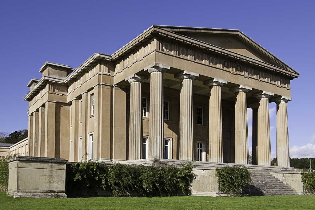 Portico at Northington Grange, Hampshire, England